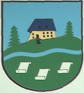 Coat of Arms of Blankenberg (Thüringen)